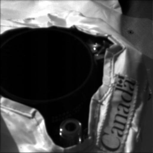 Lidar Cover Open on Mars